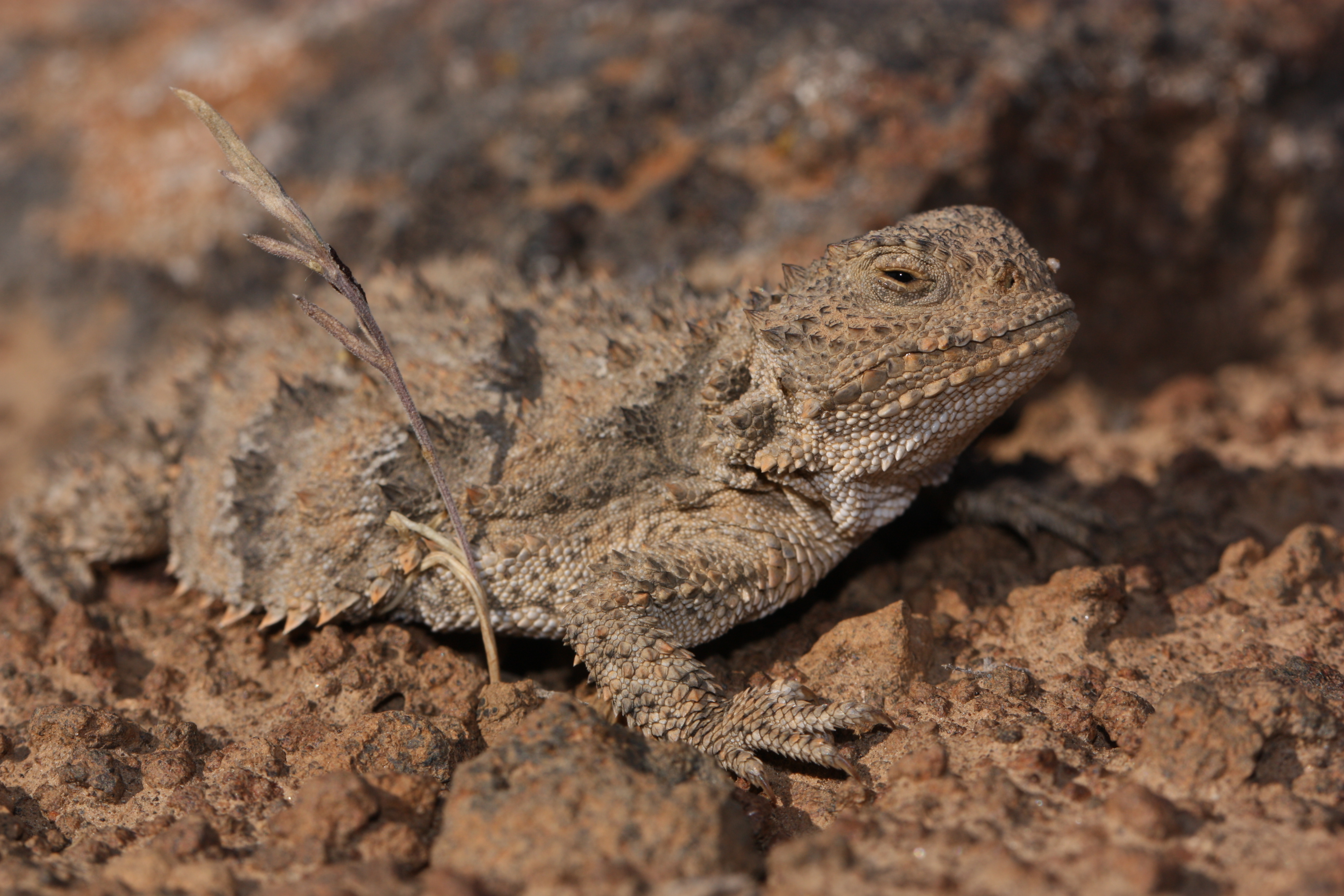 Pygmy Short-horned Lizard Viewpoint location: Unnamed and unimproved road, Whiskey Dick Unit, L.T. Murray Wildlife Area Viewpoint elevation: 685 meter (2246 ft) Location source: Garmin GPSmap 60CSx Location Datum: WGS84